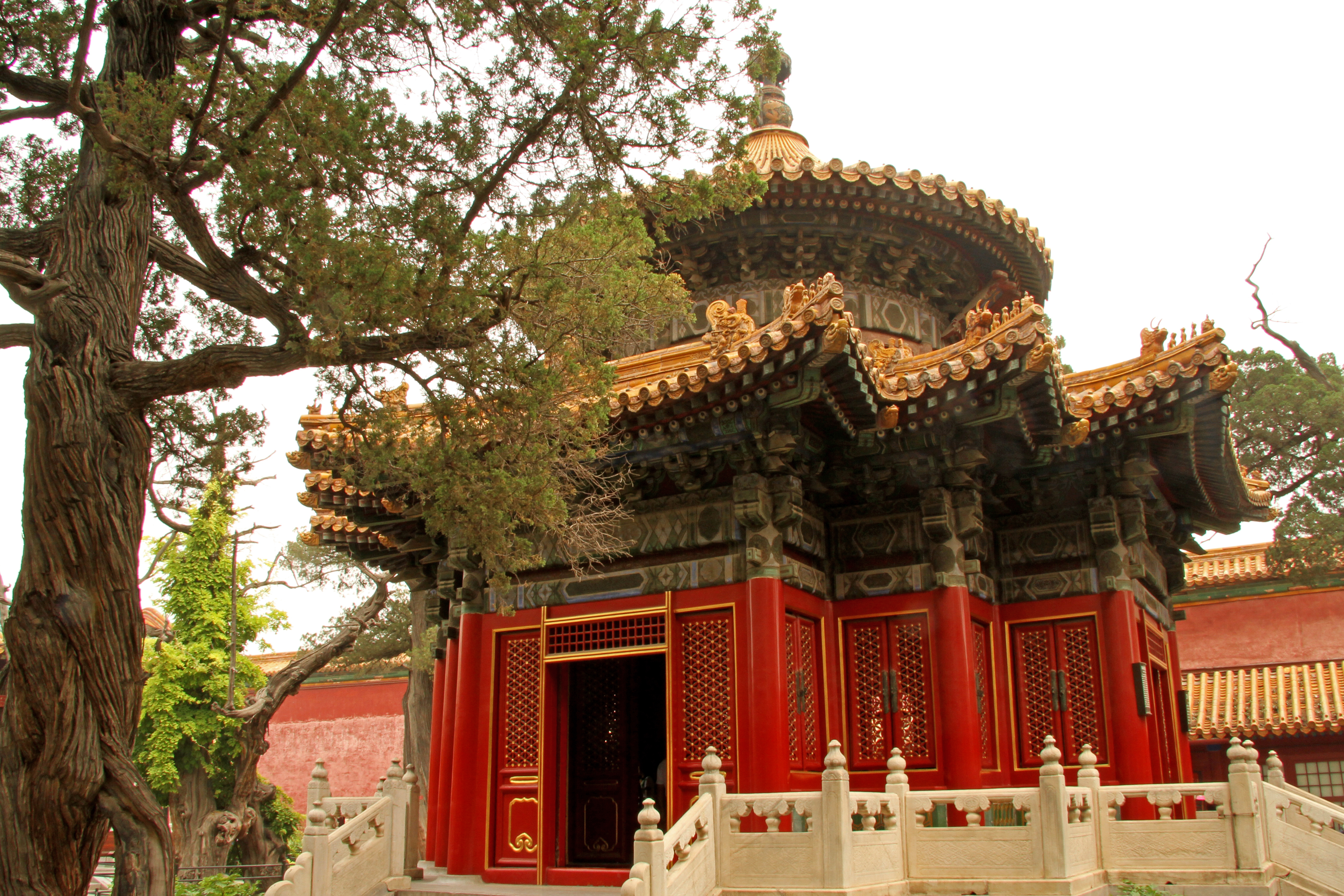 The Forbidden City - Beijing 37